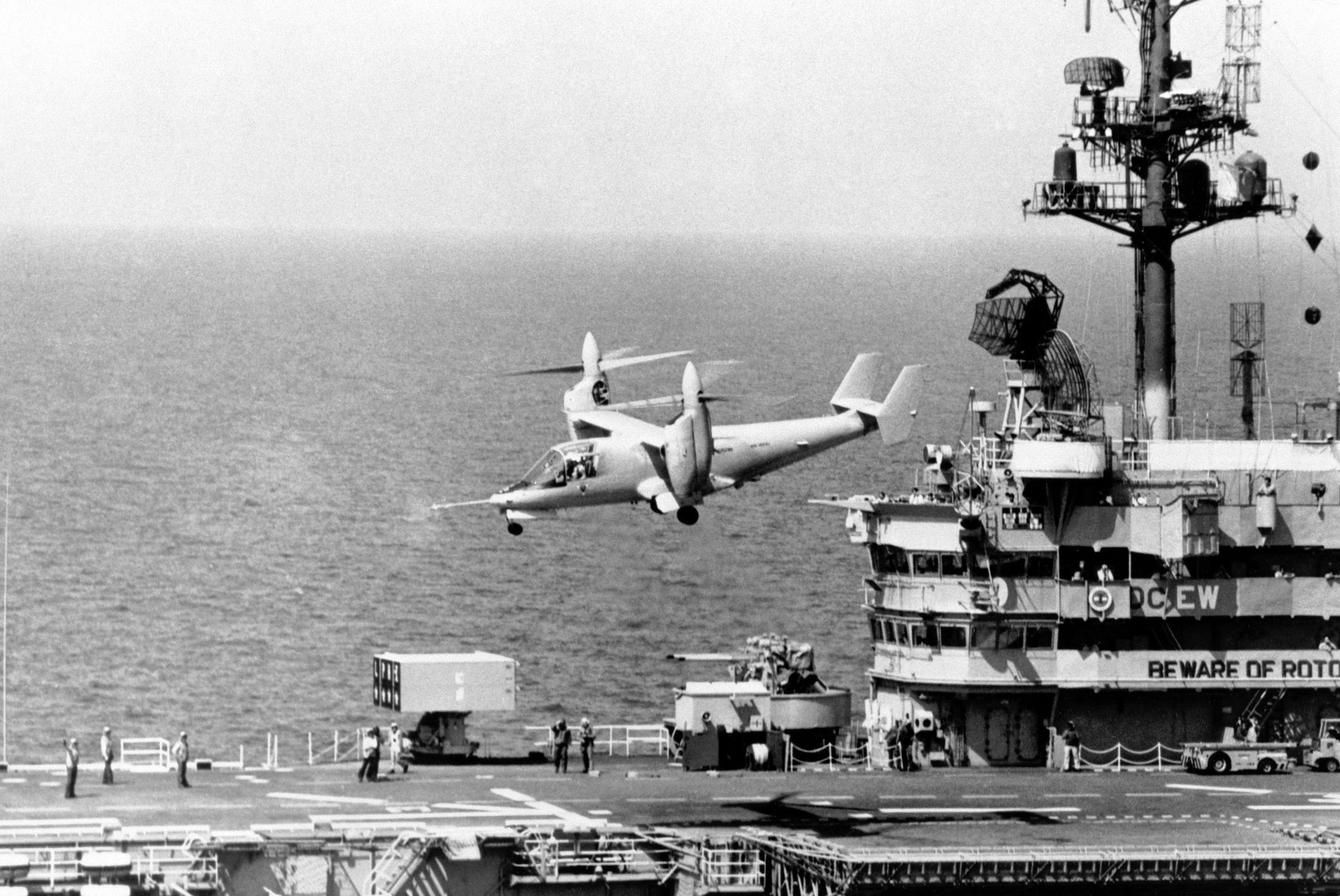 A Bell XV-15 takes off during trials aboard the amphibious assault ship USS Tripoli (LPH-10), on 1 August 1983.